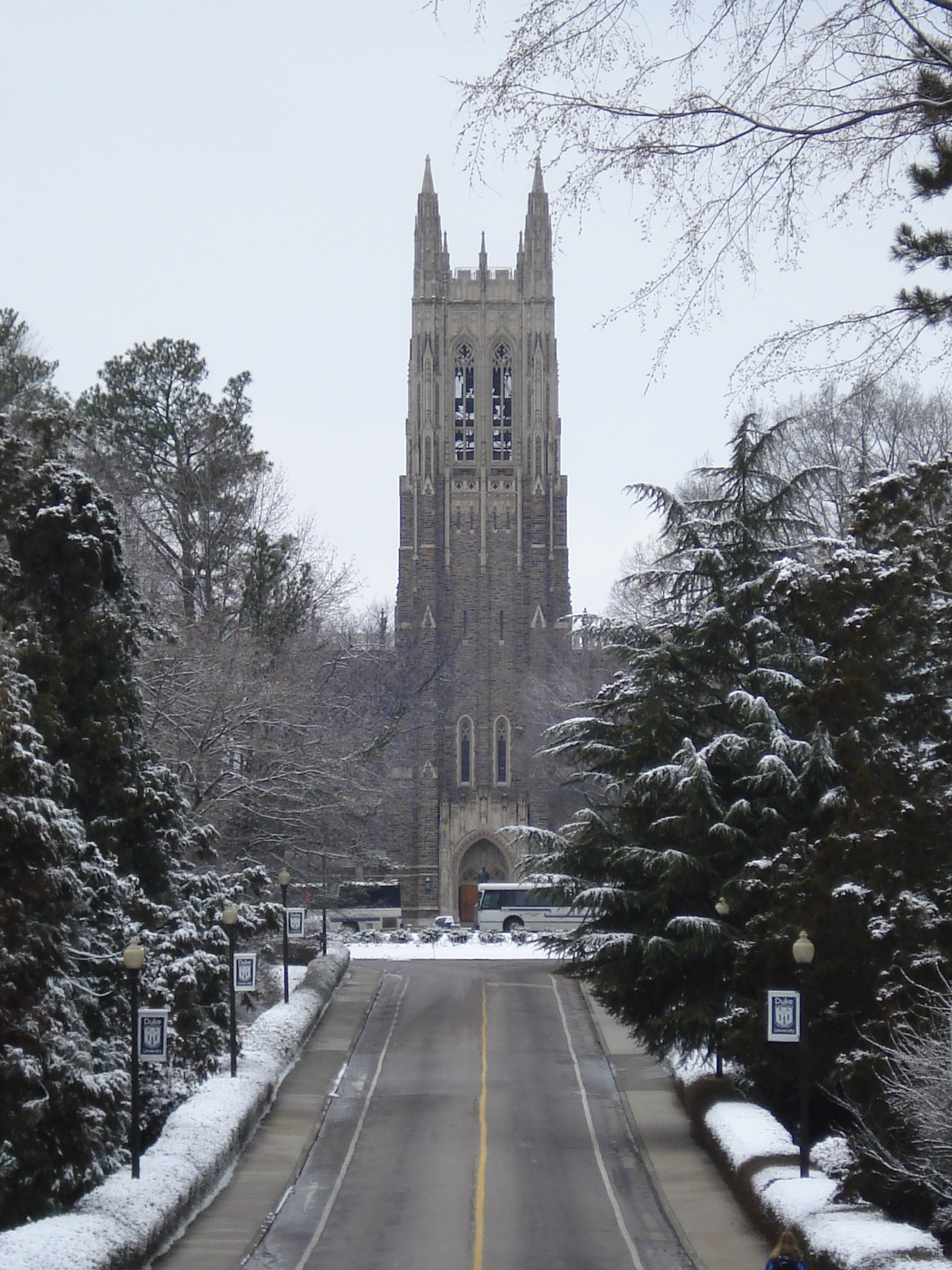 Duke University Chapel in snow.